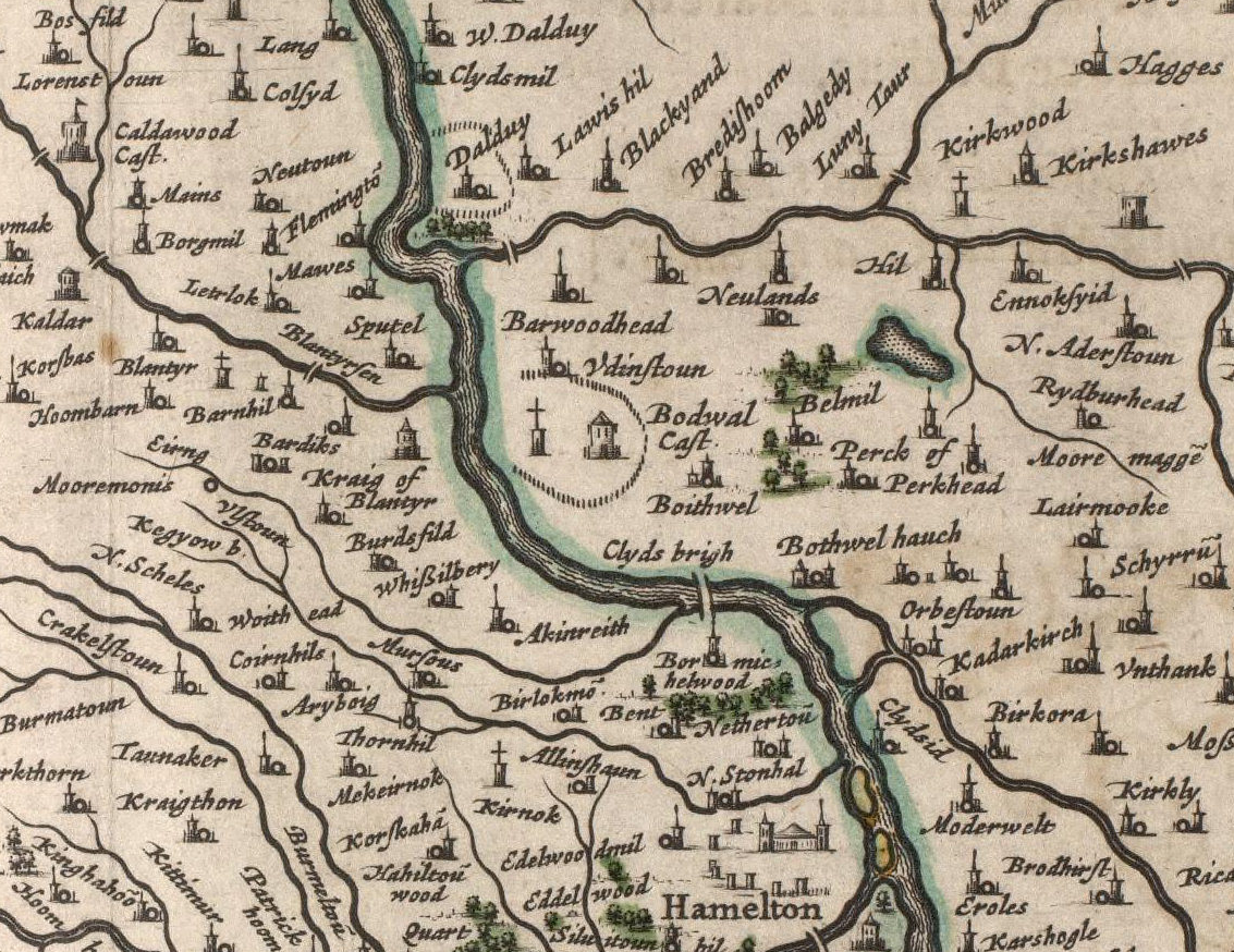 Blaeu's Map based on Timothy Pont's showing area around Bellshill